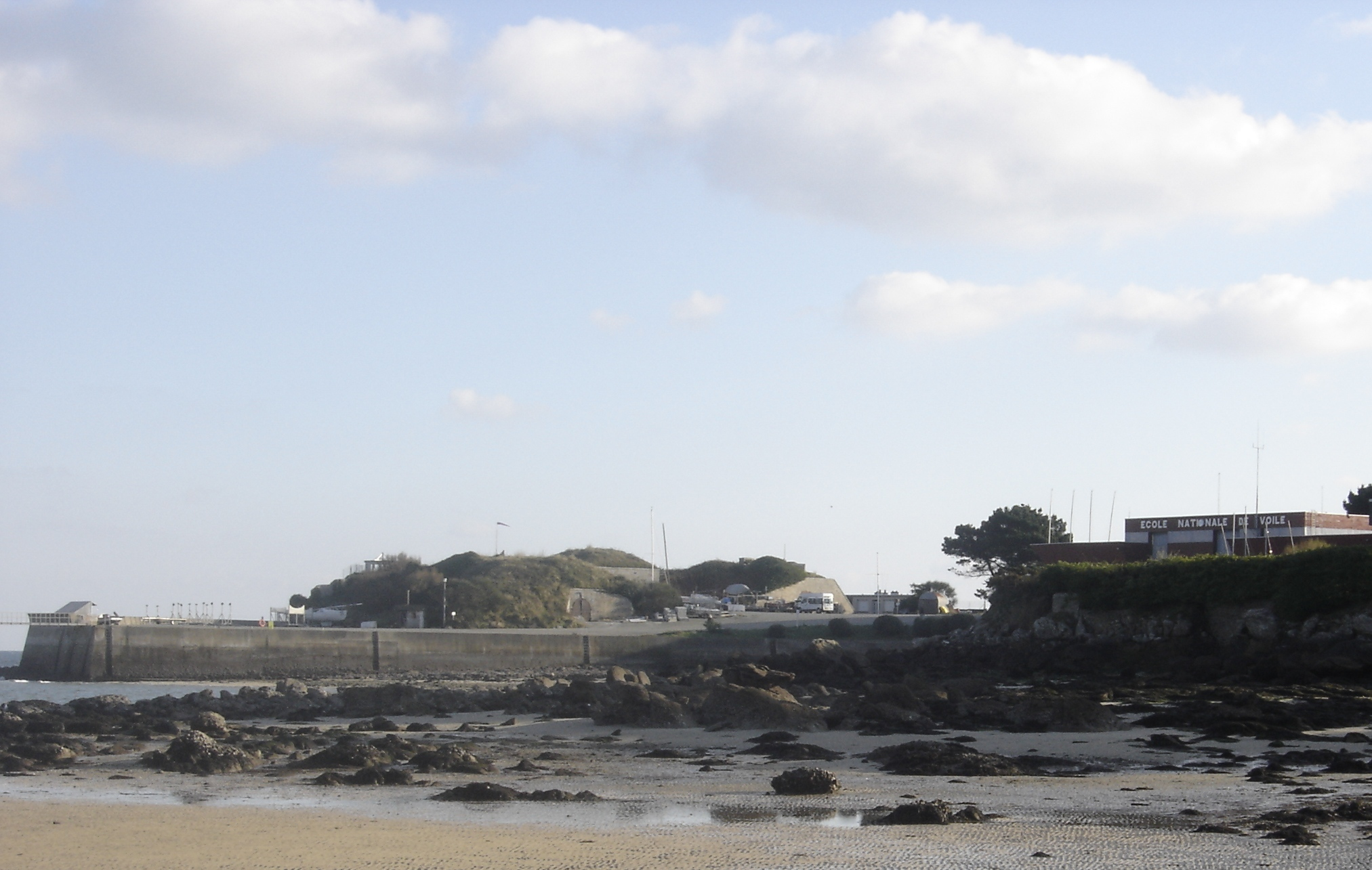 École Nationale de Voile du Rohu (National Sailing School)